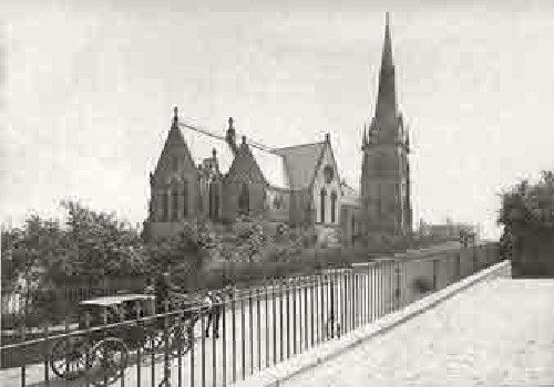 St Peter's church, Bramley, West Yorkshire, England. Designed by Perkins & Backhouse 1861-1863. This image shows the nave of the church as it was before it was rebuilt in the 20th century.